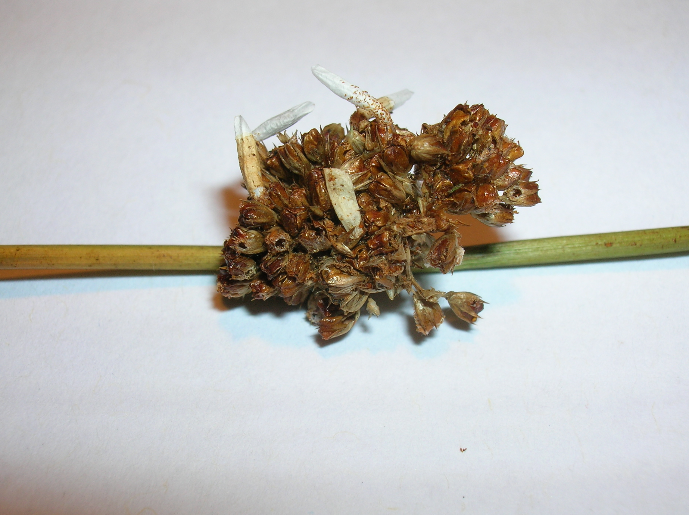 Pupal cases of the moth Coleophora caespitiella on Juncus effusus. Auchenmade, North Ayrshire, Scotland.